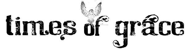 Times of Grace logo